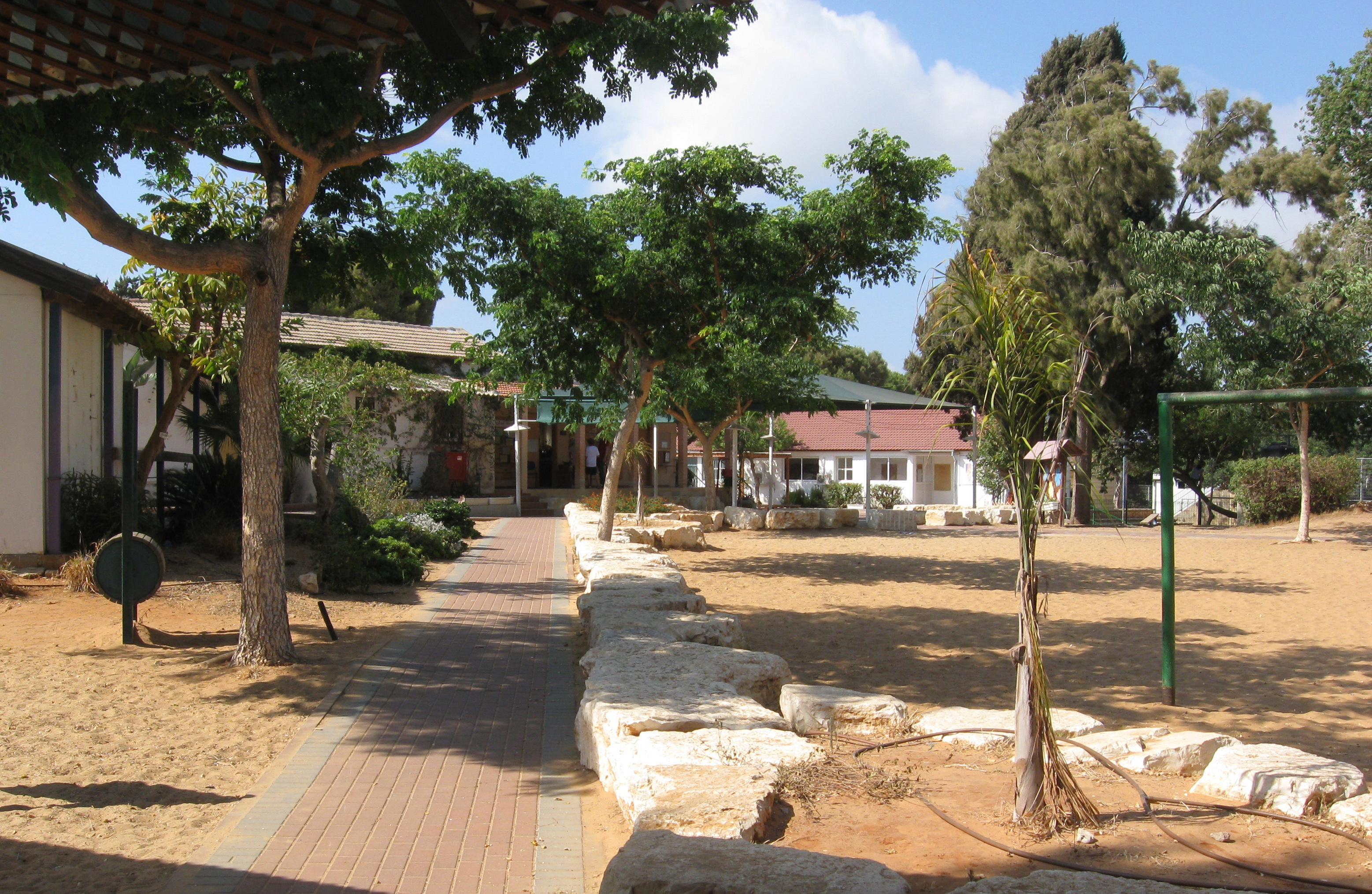 Avihayil Experimental school. from the Southern entrance.